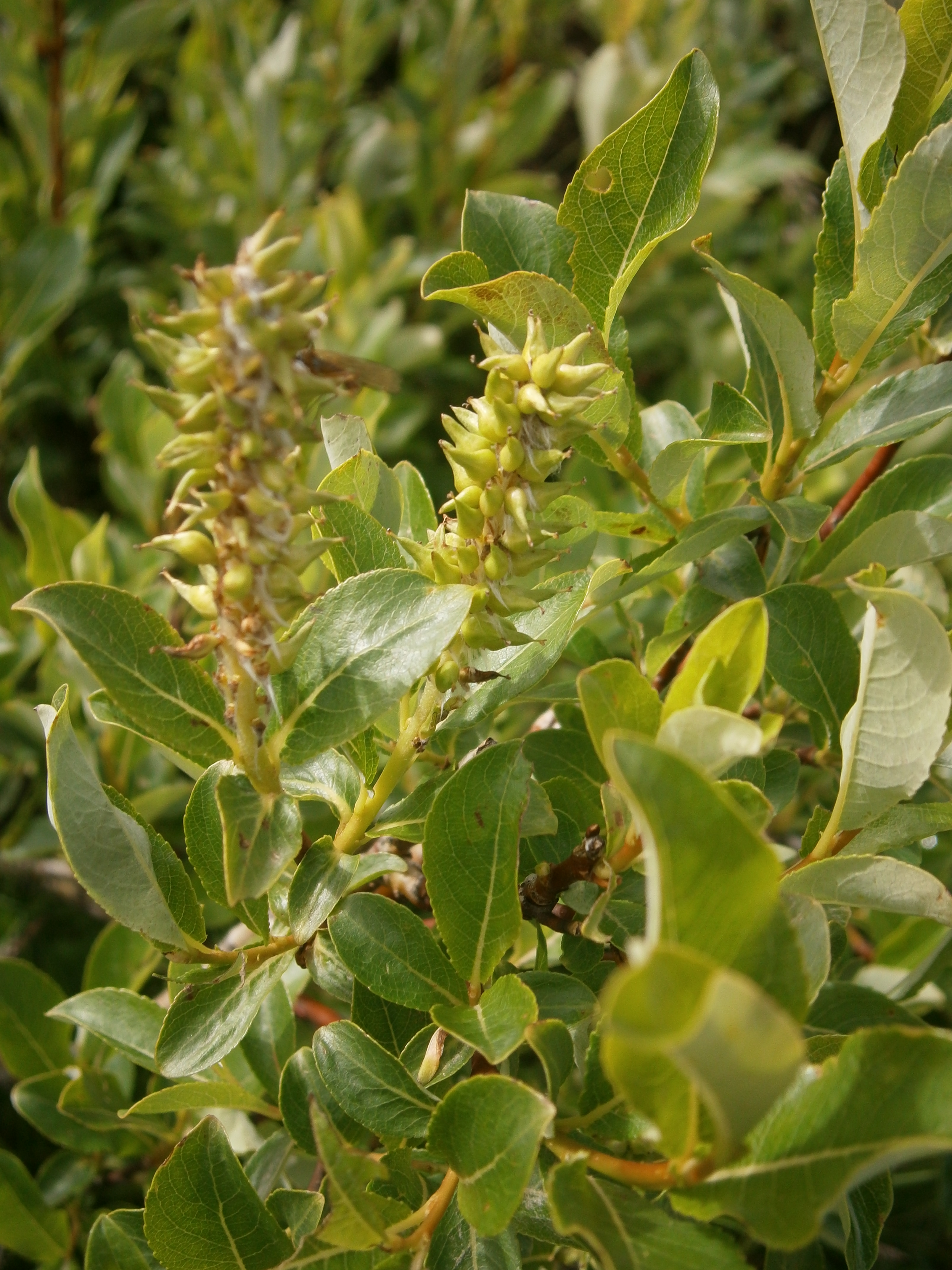 Salix hastata